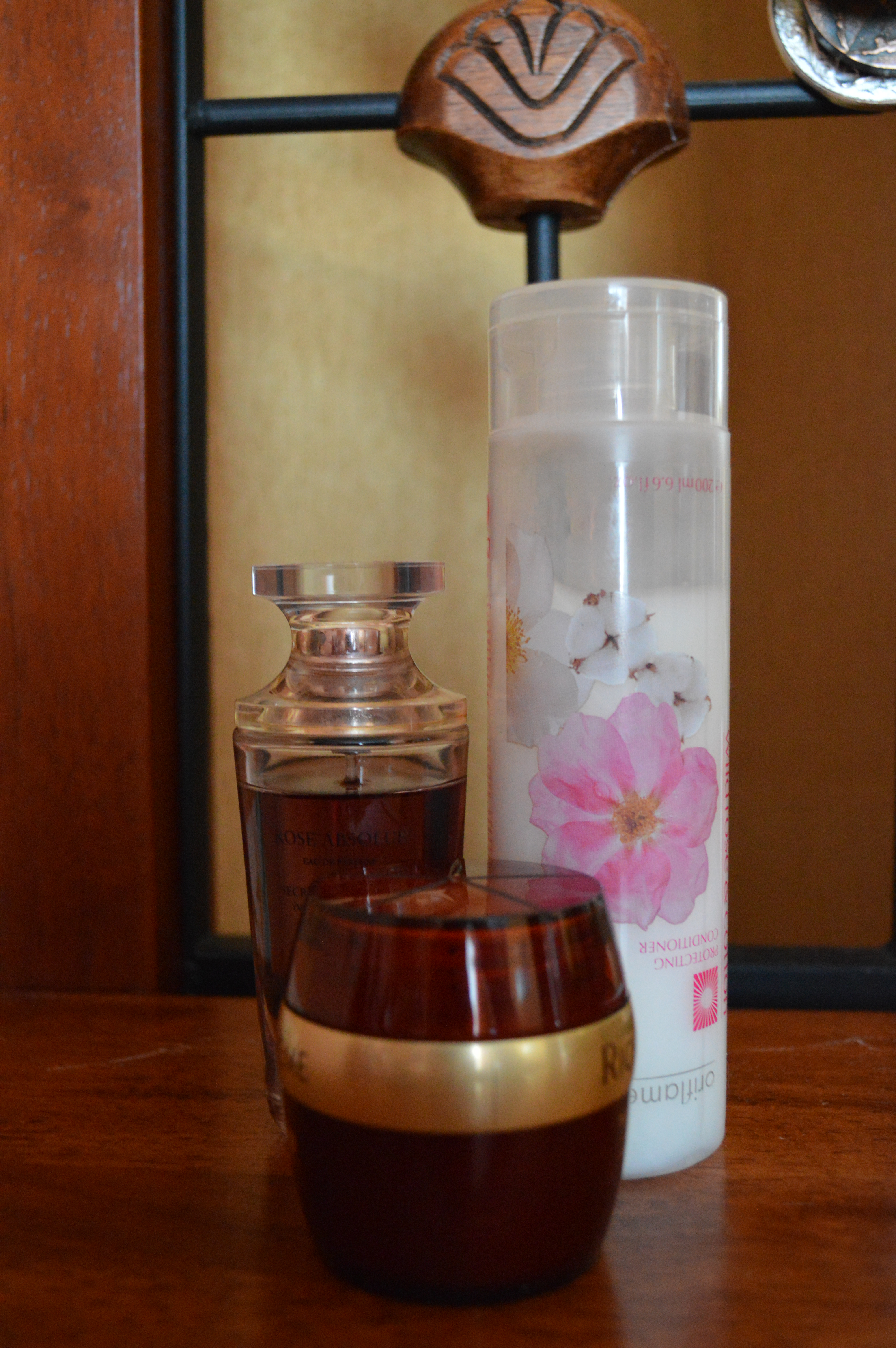 Cosmetics with various components of rose petals (granula, extract etc.)